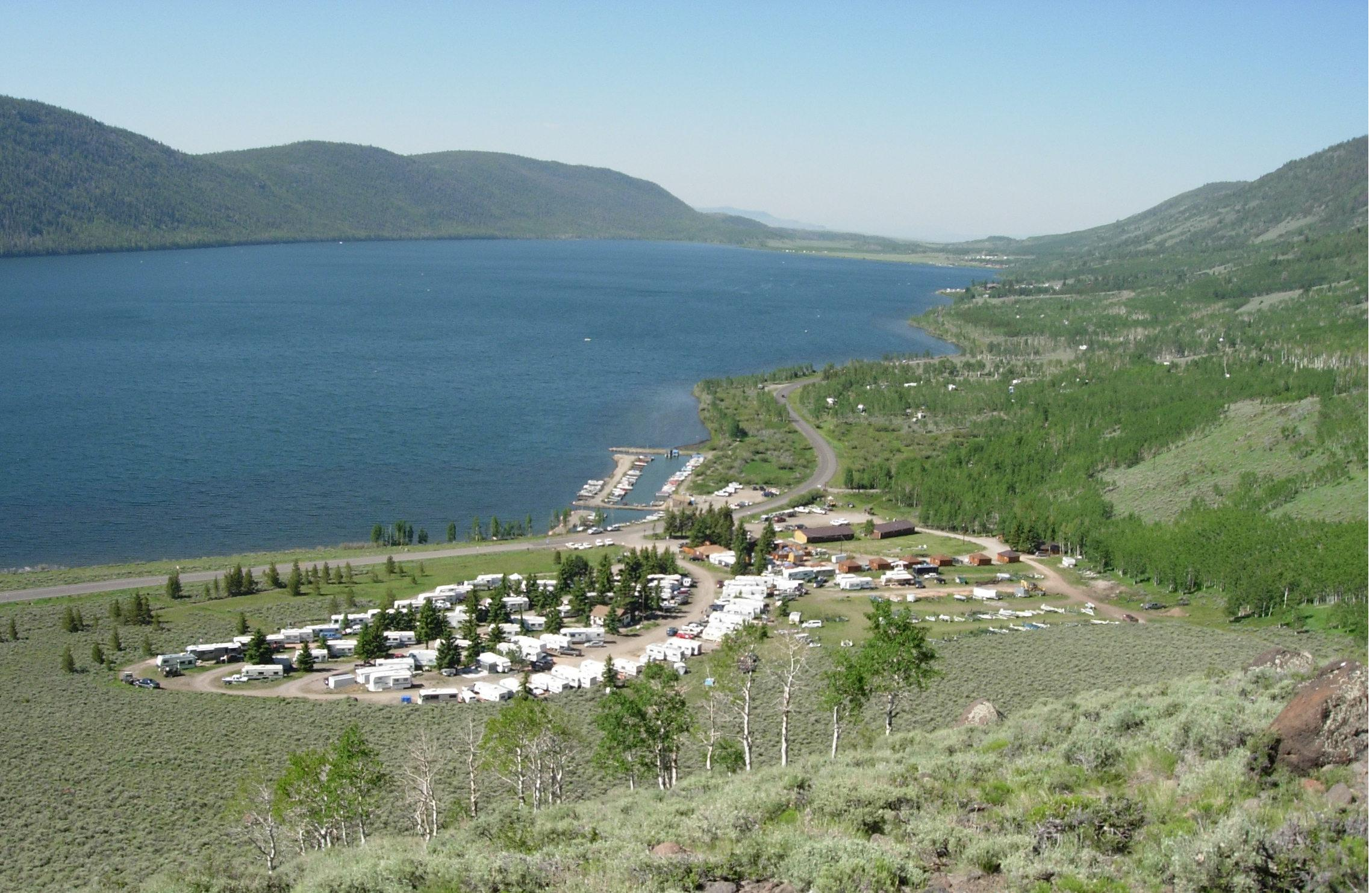 Looking SSW across Fish Lake from Pelican Promontory. The campground nearest to view is the Bowery Resort. The Mytoge Crest is to the left, while the depression in the distance leads to a former (now dried) drainage known as Dead Man's Hollow.